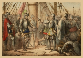 Surrender of King Alfonso V of Aragon to Giacomo Giustiniani after the Battle of Ponza; August 5, 1435.